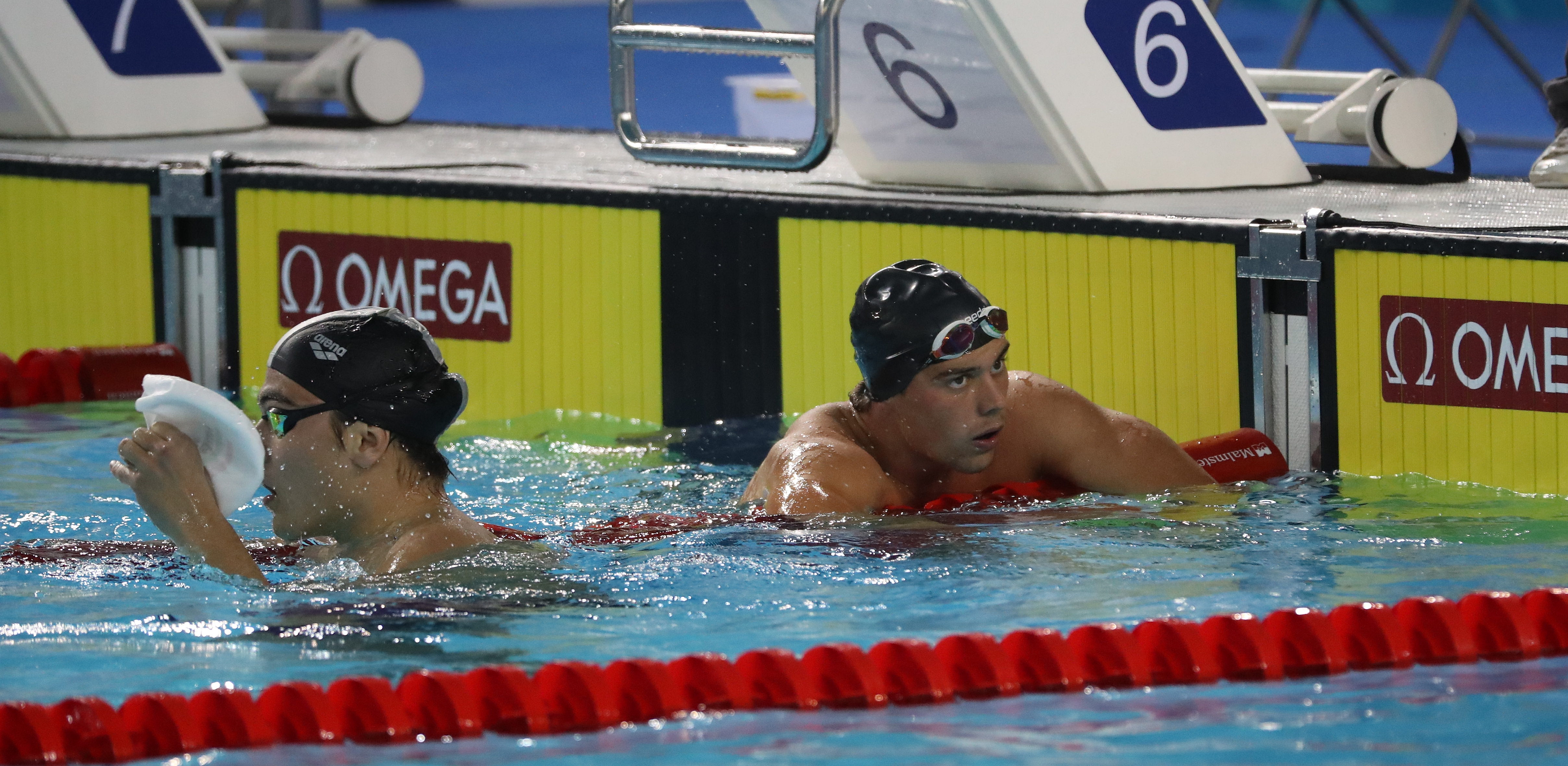 Swimming of boys' 400 m freestyle final at the 2018 Summer Youth Olympics in Buenos Aires on 7 October 2018.